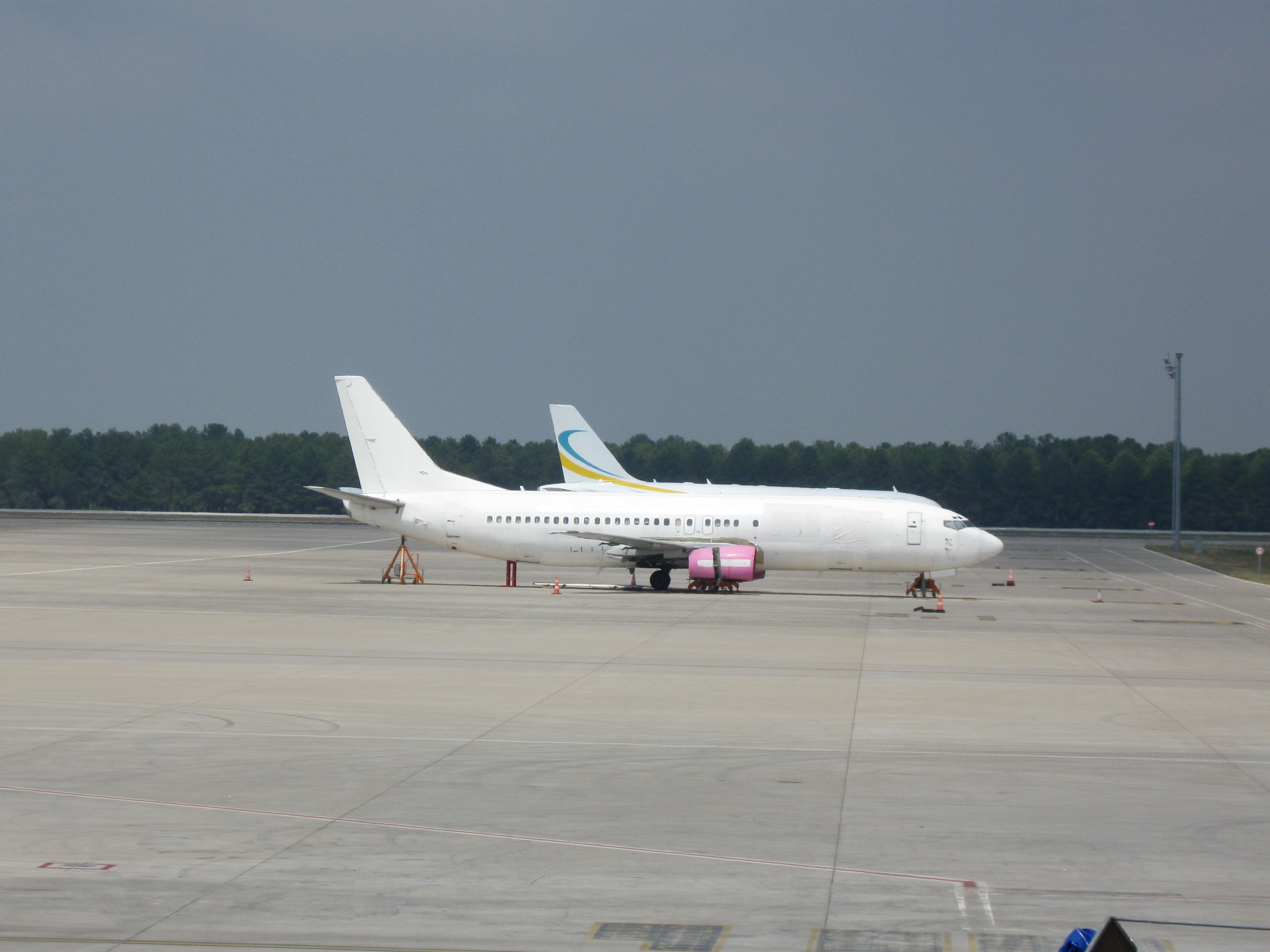 Almost scrapped Boeing 737-400 (reg. TC-SKF) of Sky Airlines at the airport of Antalya. This aircrafs suffered a main gear collapse on 10-10-2011. Sky Airline's branding was repainted quickly.